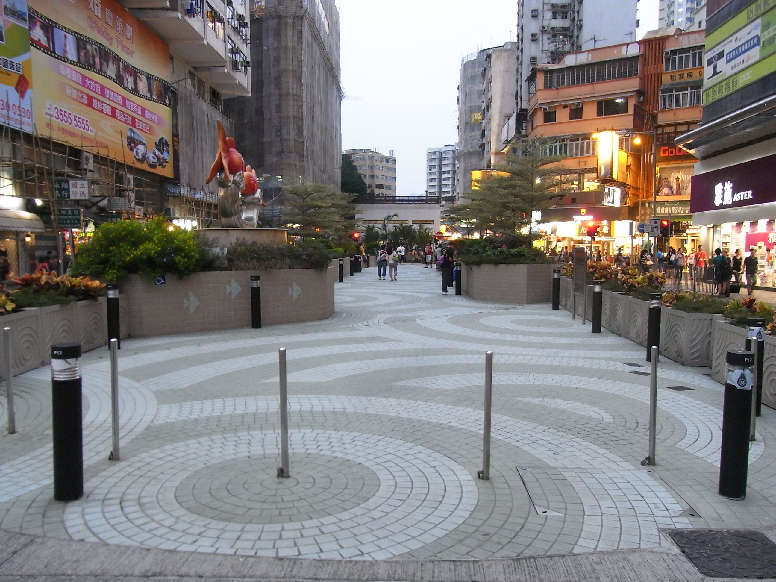 旺角水渠道, Evening in Nullah Road, Mongkok, Hong Kong